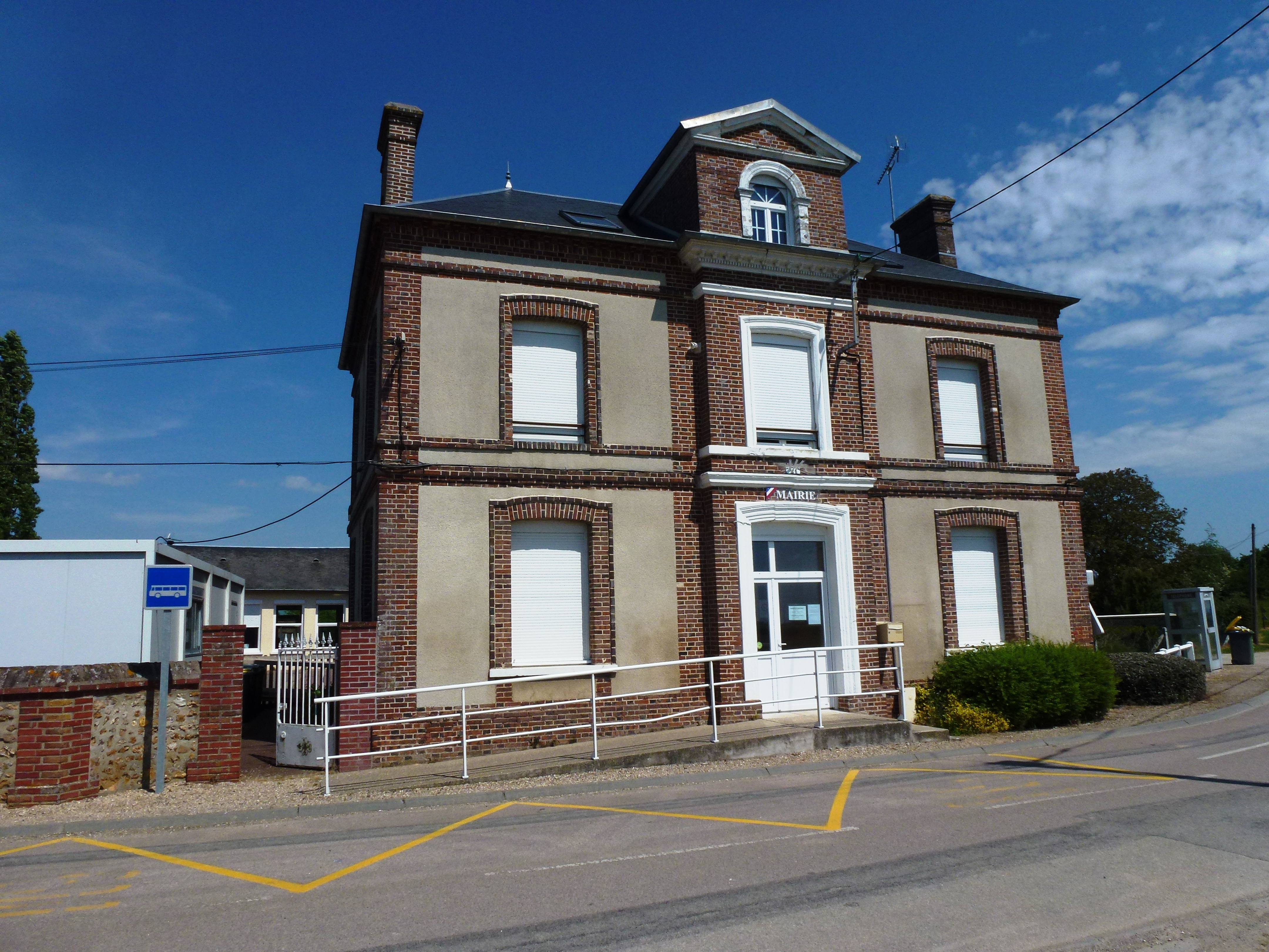 Barquet (Eure, Fr) mairie